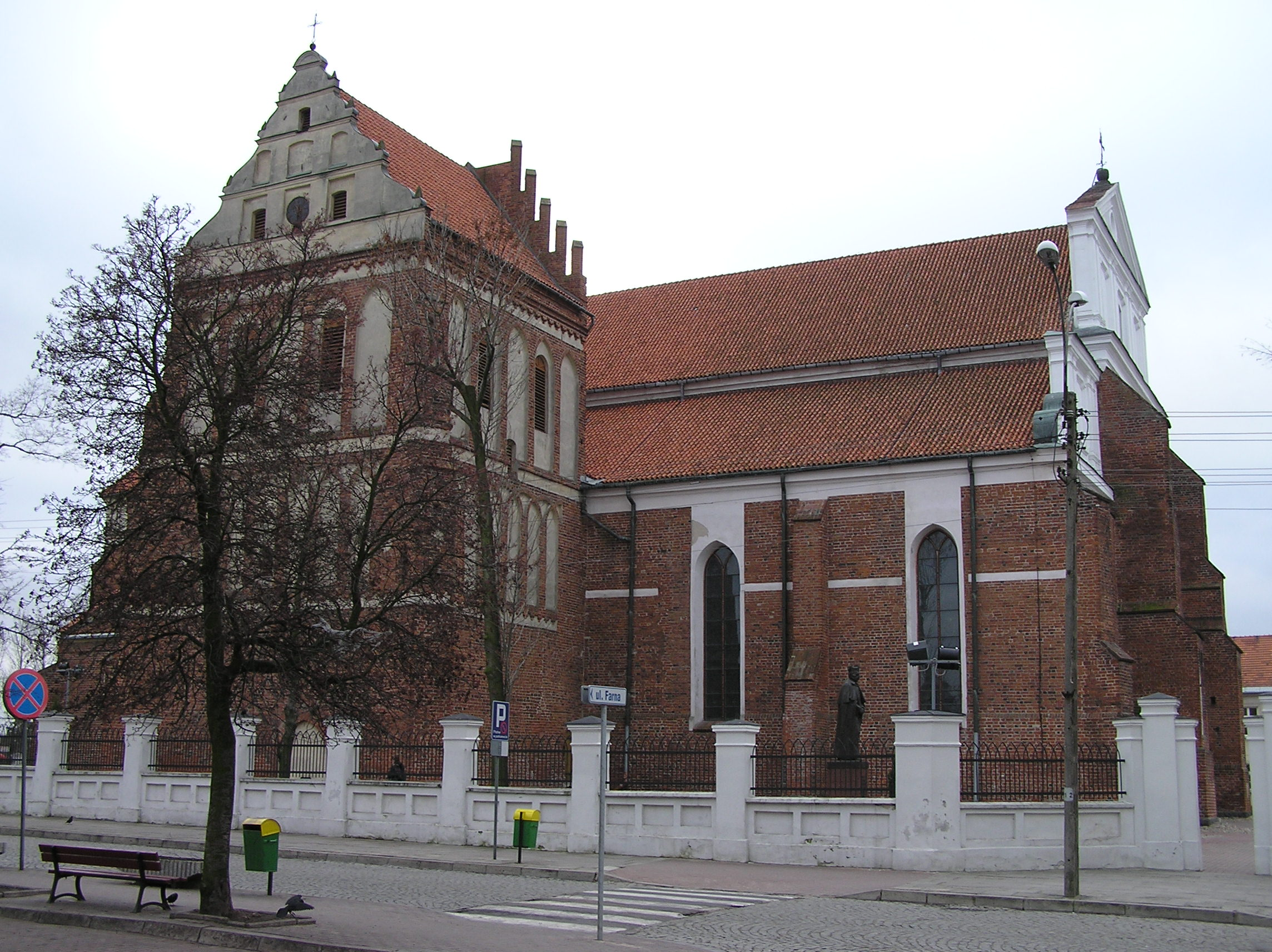 Cathedral in Łomża in Poland, XVI century